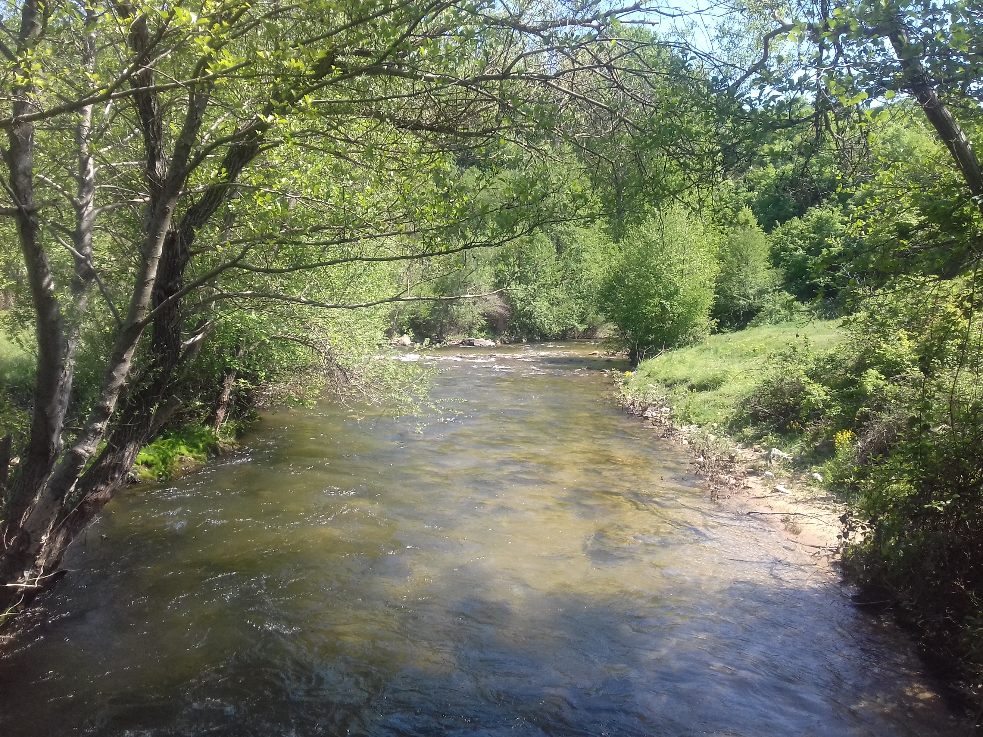 Kadina River, Macedonia